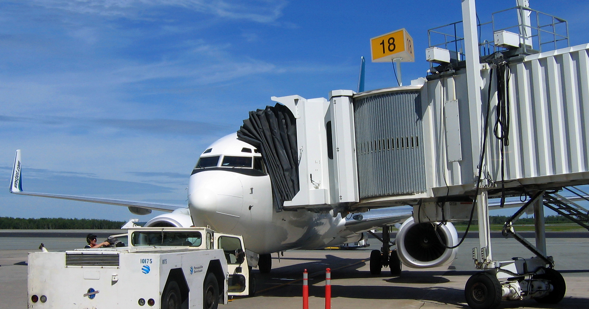 WestJet Boeing 737 loading passengers, Halifax International Airport